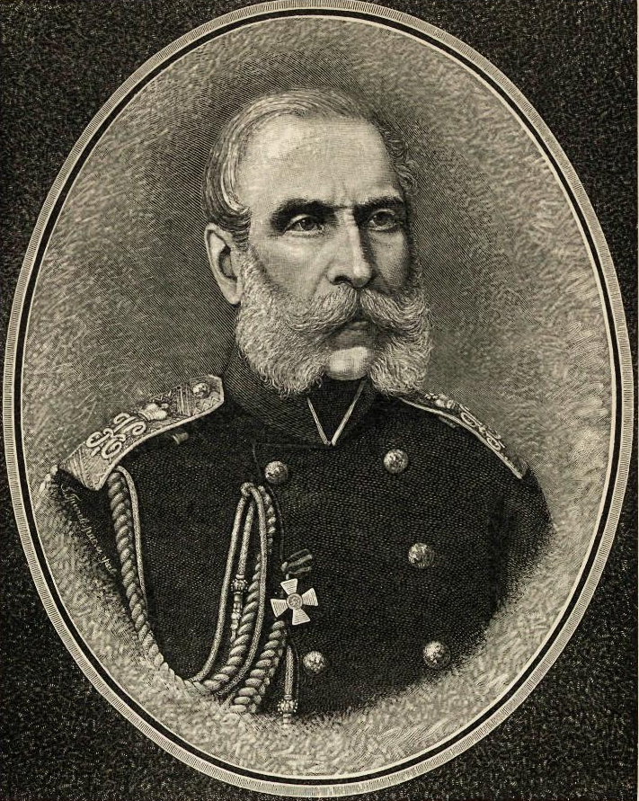 Strogonov Sergey Grigorievich